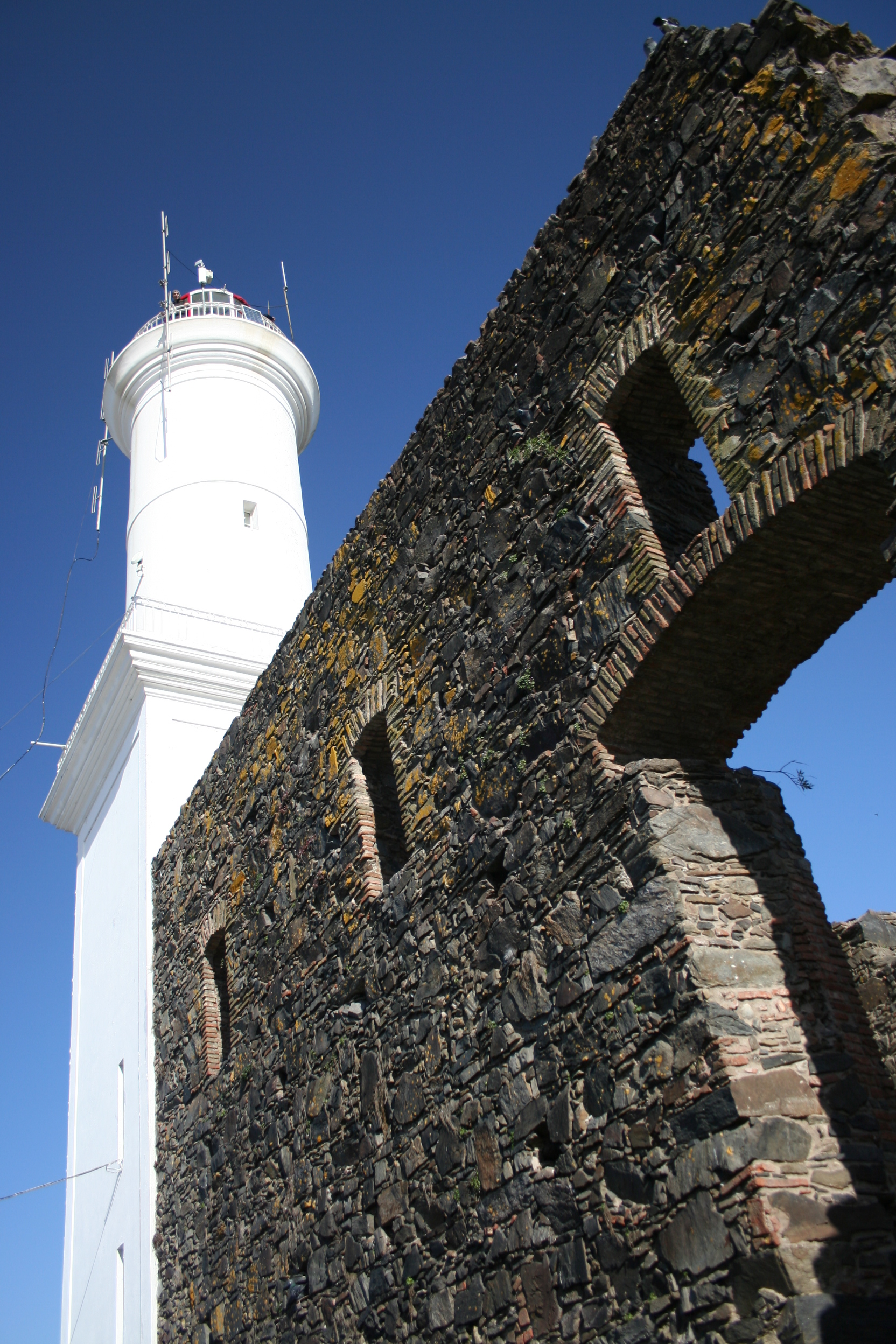 Lighthouse and San Francisco Javier convent in Colonia del Sacramento.